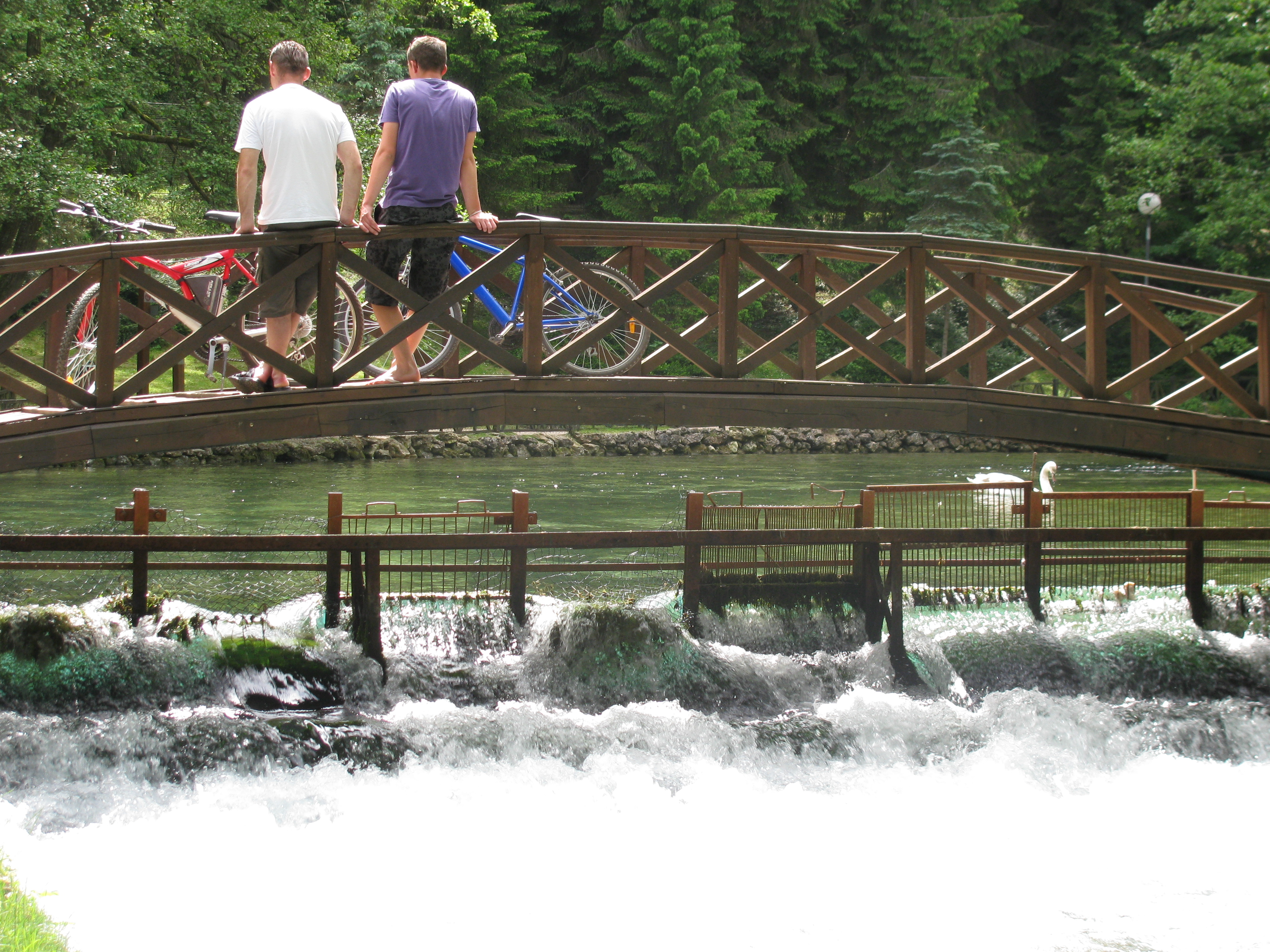 Sarajevo park in the municipality of Ilidža on the river Bosna.